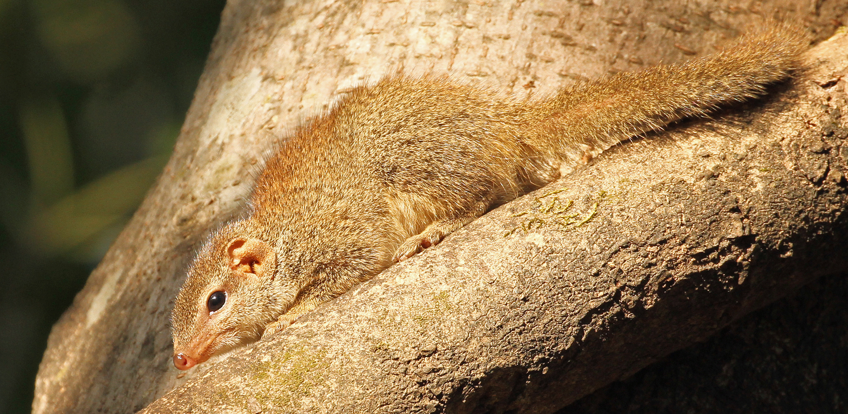 The Madras treeshrew (Anathana ellioti), Satpura National Park Pachmarchi